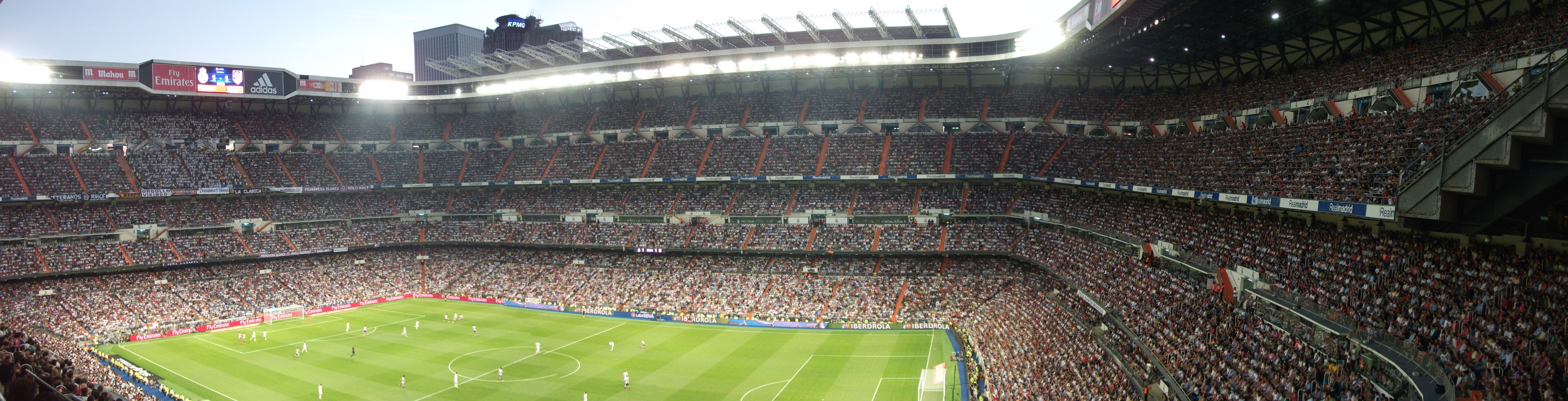 Santiago Bernabéu Stadium, Real Madrid - Atlético Madrid, September 2014